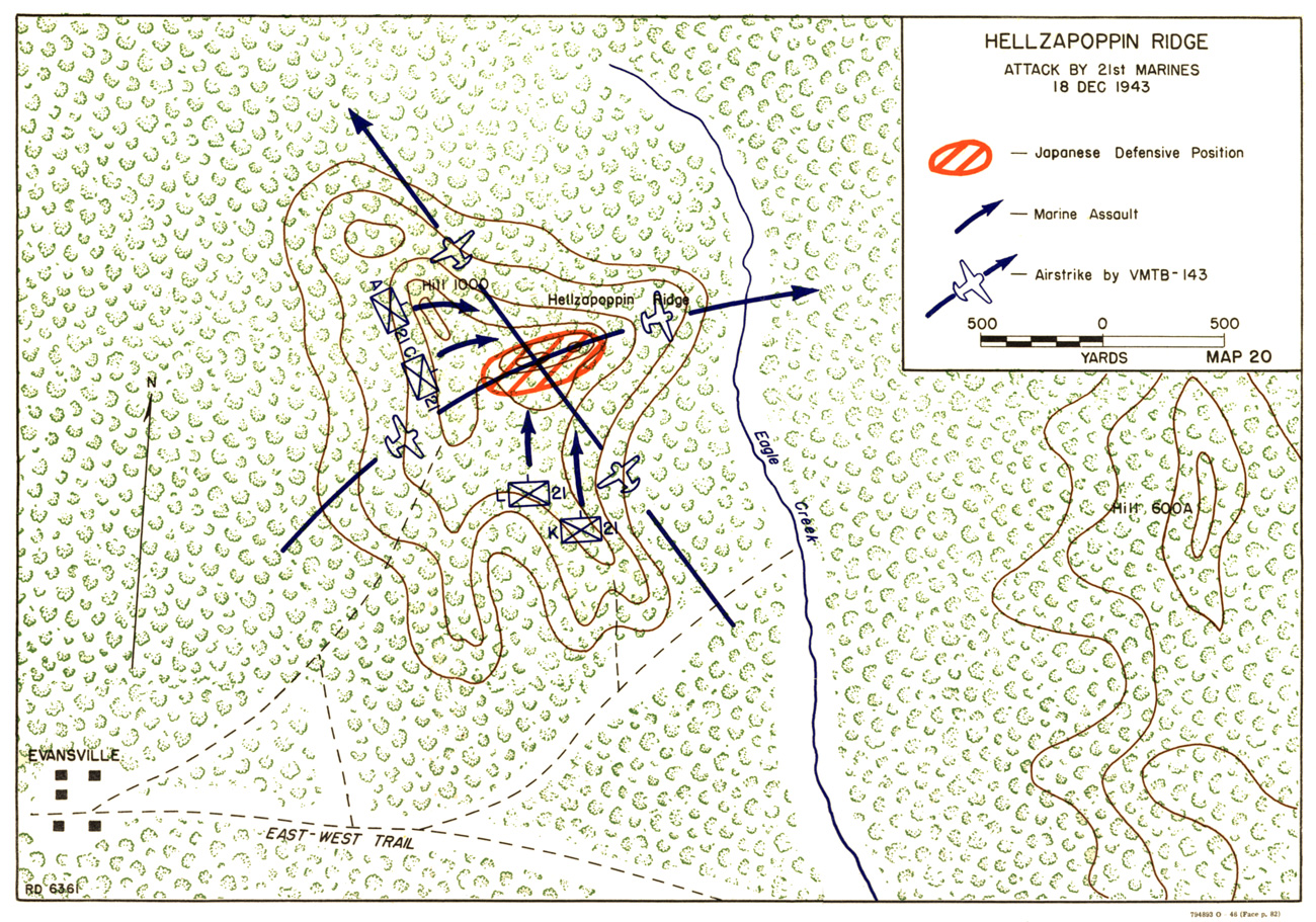 Map depicting the attack by elements of the 21st Marine Regiment on Japanese positions on Hellzapoppin Ridge, 18 December 1943.